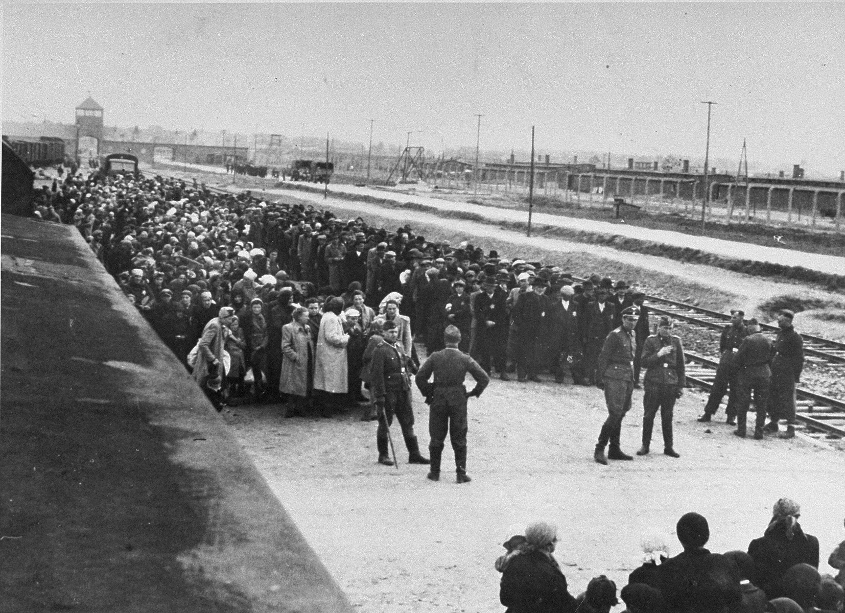 Jews from Subcarpathian Rus, then part of Hungary, await selection on the ramp at Auschwitz II-Birkenau. The photograph is part of the collection known as the Auschwitz Album, which was donated to Yad Vashem by Lili Jacob, a survivor. Jacob found it in the Mittelbau-Dora concentration camp in 1945.